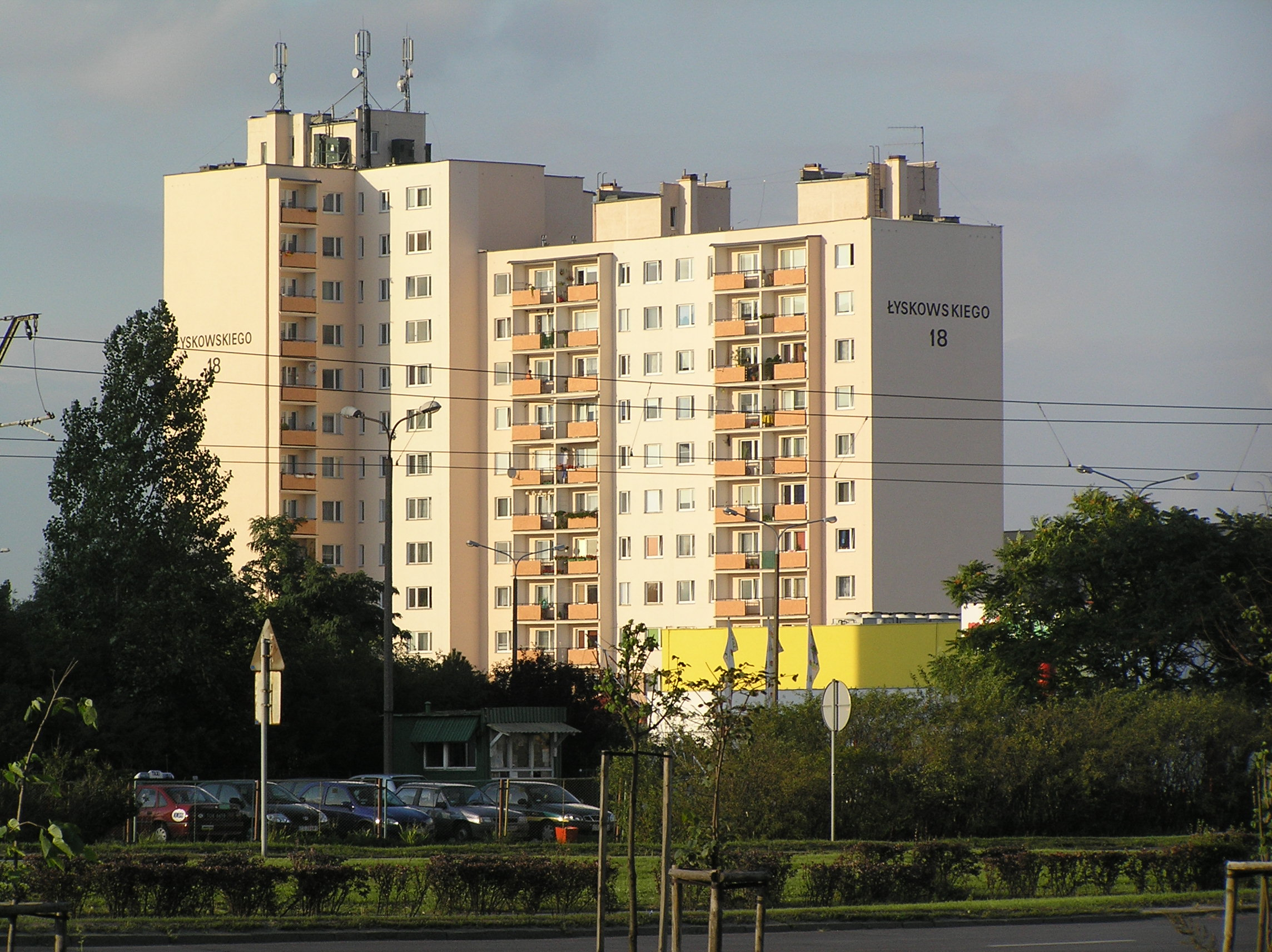 Toruń, Rubinkowo district, apartment block at Łyskowskiego Str.